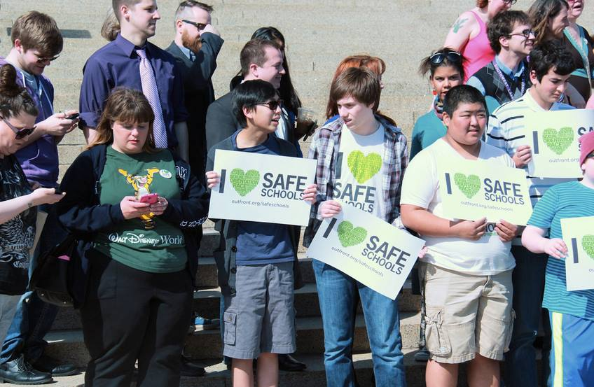 Bill Signing